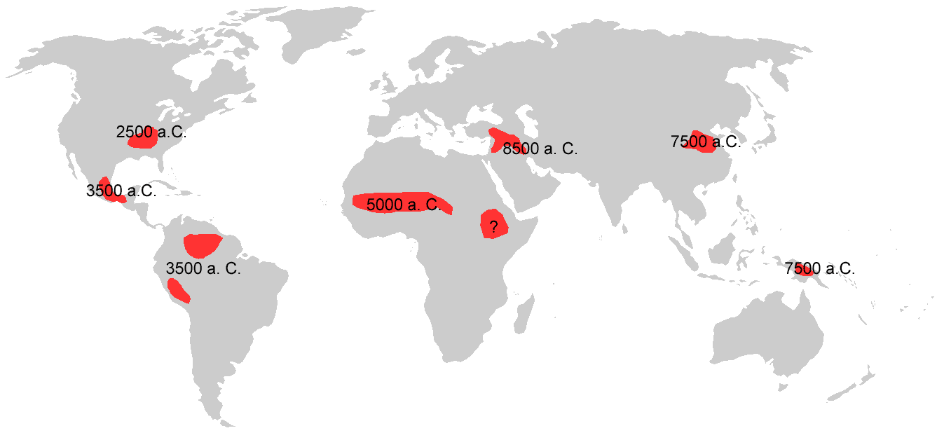 Earlier areas for Beginning of agriculture in different continents. Source: J. Diamond, Guns, Germs, and Steel, Ch. 5, 1997